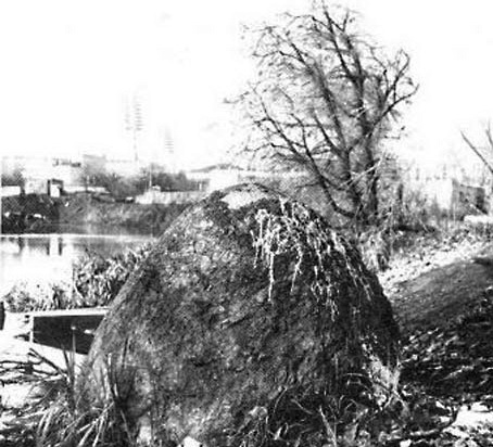 Granddad (bowlder) in Minsk museum of boulders, Belarus